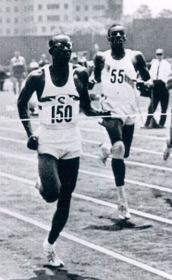 Left-right: Ulis Williams, Adolph Plummer